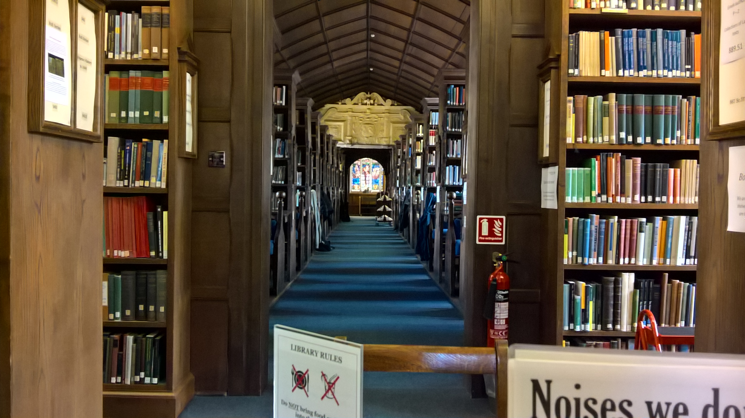 The library of Corpus Christi College, Oxford, as seen from the former President's Study. The plasterwork above the end displays (from left to right) the arms of the college, Richard Foxe and Hugh Oldham. The stained glass belongs to the chapel, which is separated from the library by a pane of glass.